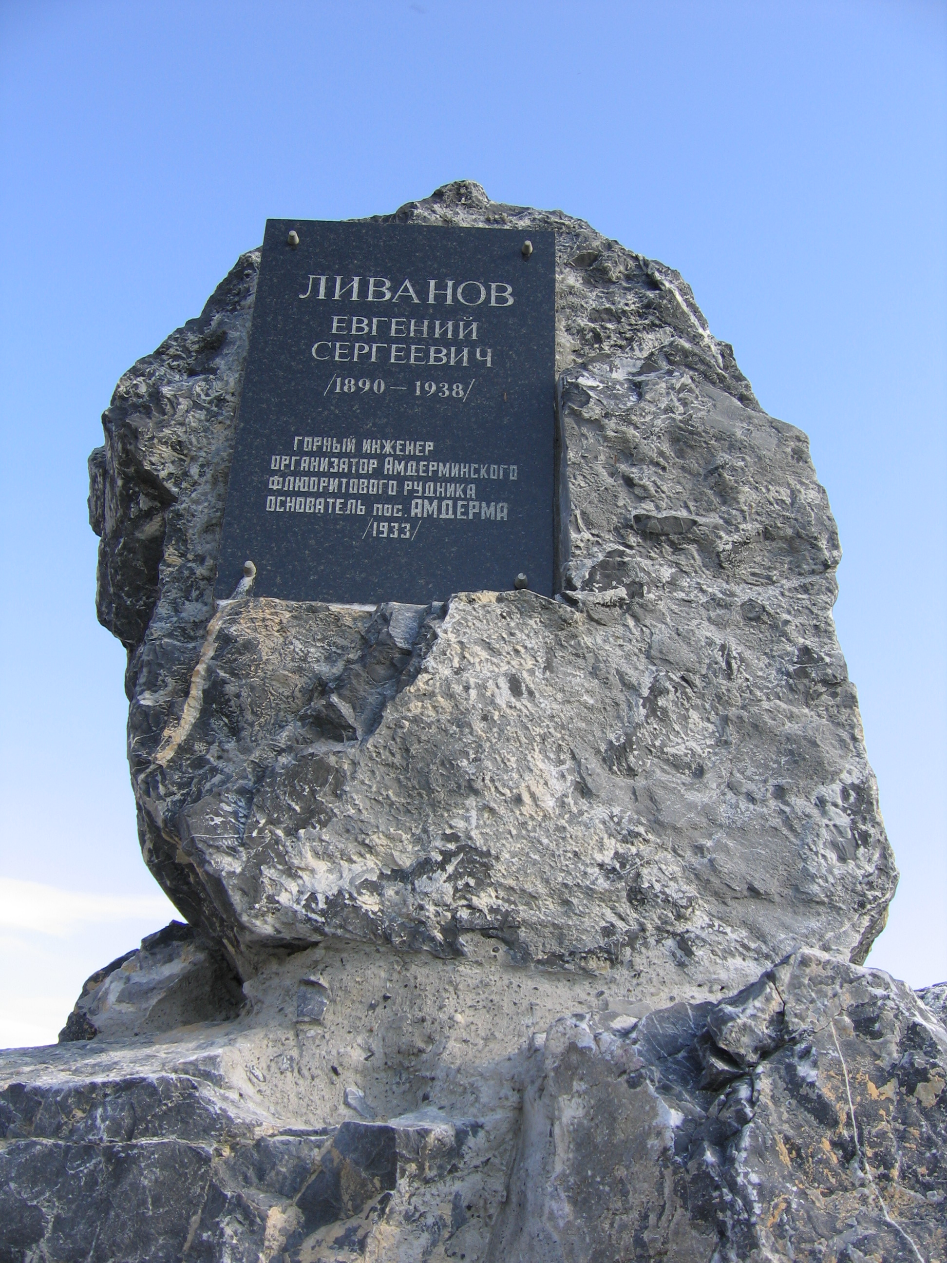 Monument of Evgeny Livanov (1890-1938), Mountain Ore Engineer, Founder of Amderma (1933), started the Amderma Fluorite deposit mining